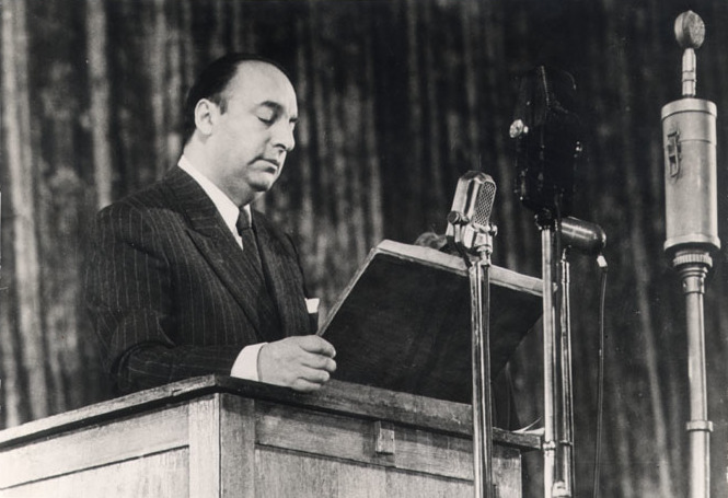 Pablo Neruda visits the Soviet Union. August, 1950.